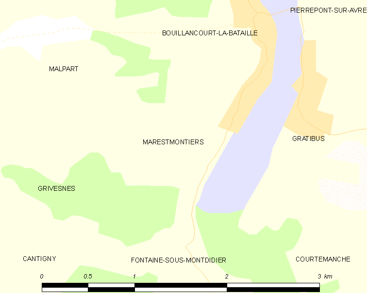 Map of French municipality Marestmontiers